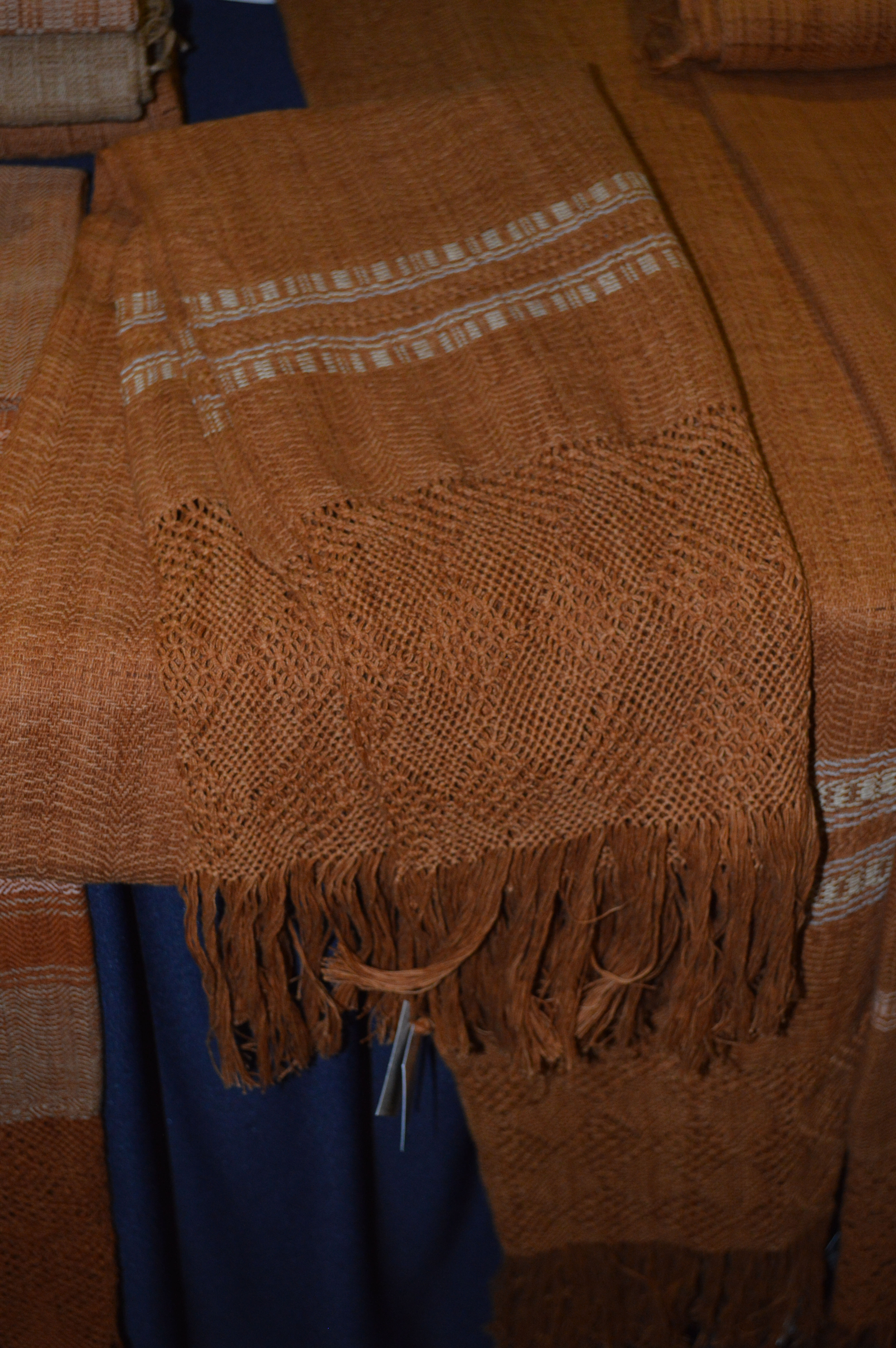 Woven cotton rebozo from Santa Maria Tlahuitoltepec, Oaxaca on display at the Expo de los Pueblos Indígenas in Mexico City